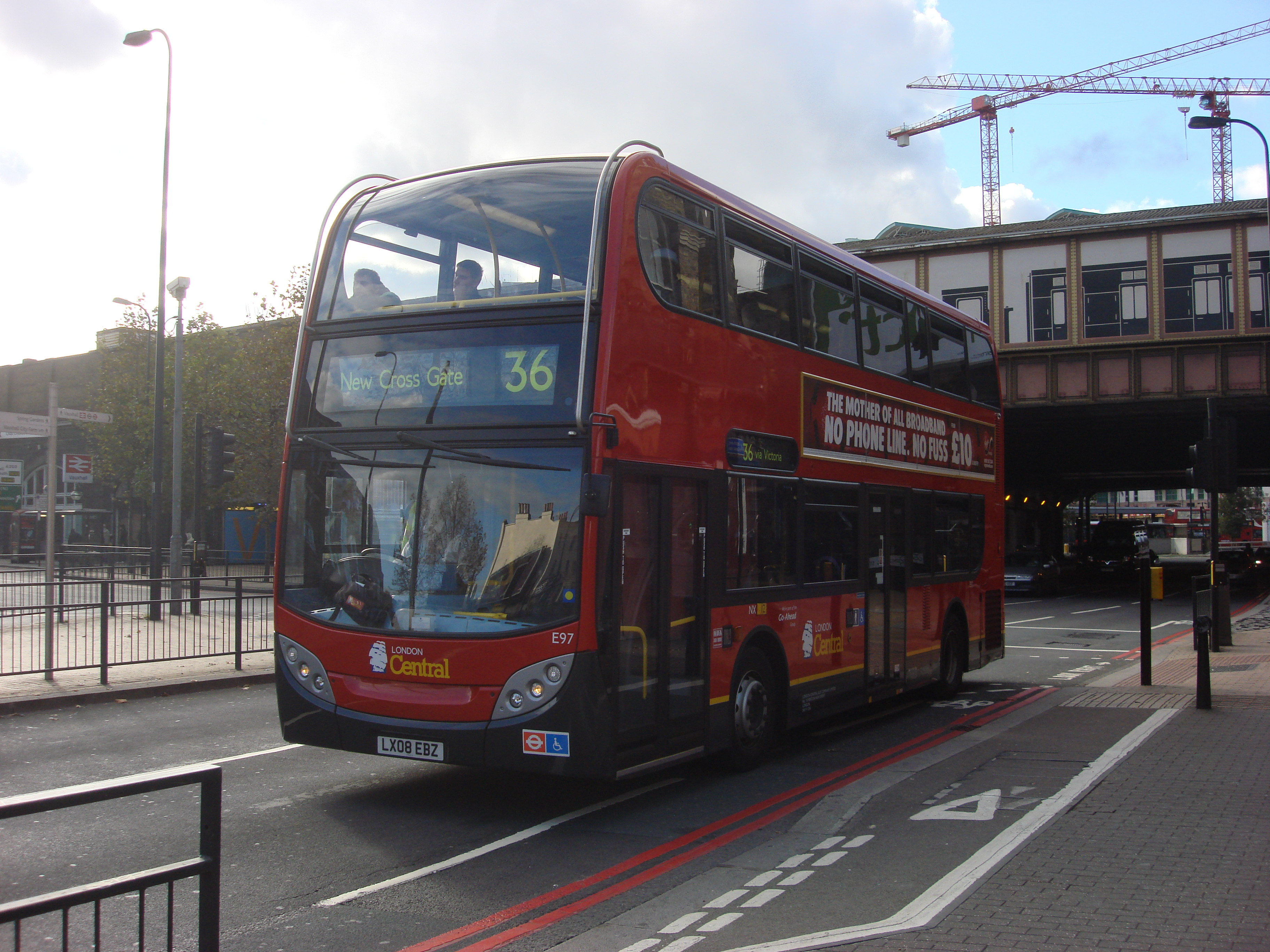 A bus on London Buses route 36.